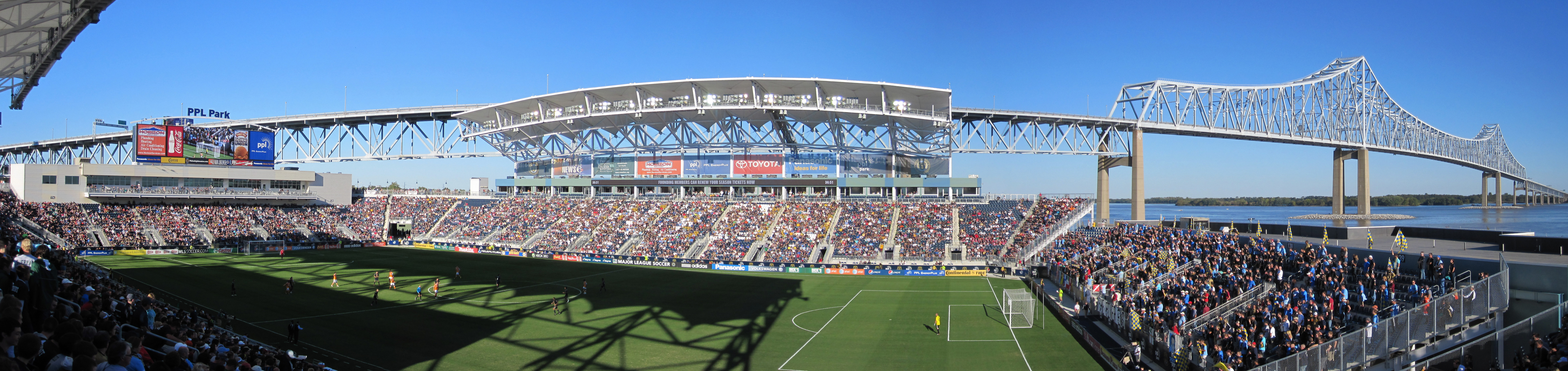 View of the interior of PPL Park, from the southwest stands facing the northeast stands and the Commodore Barry Bridge, captured during the thirty-sixth minute of play of the Union v. Dynamo match (October 2, 2010).